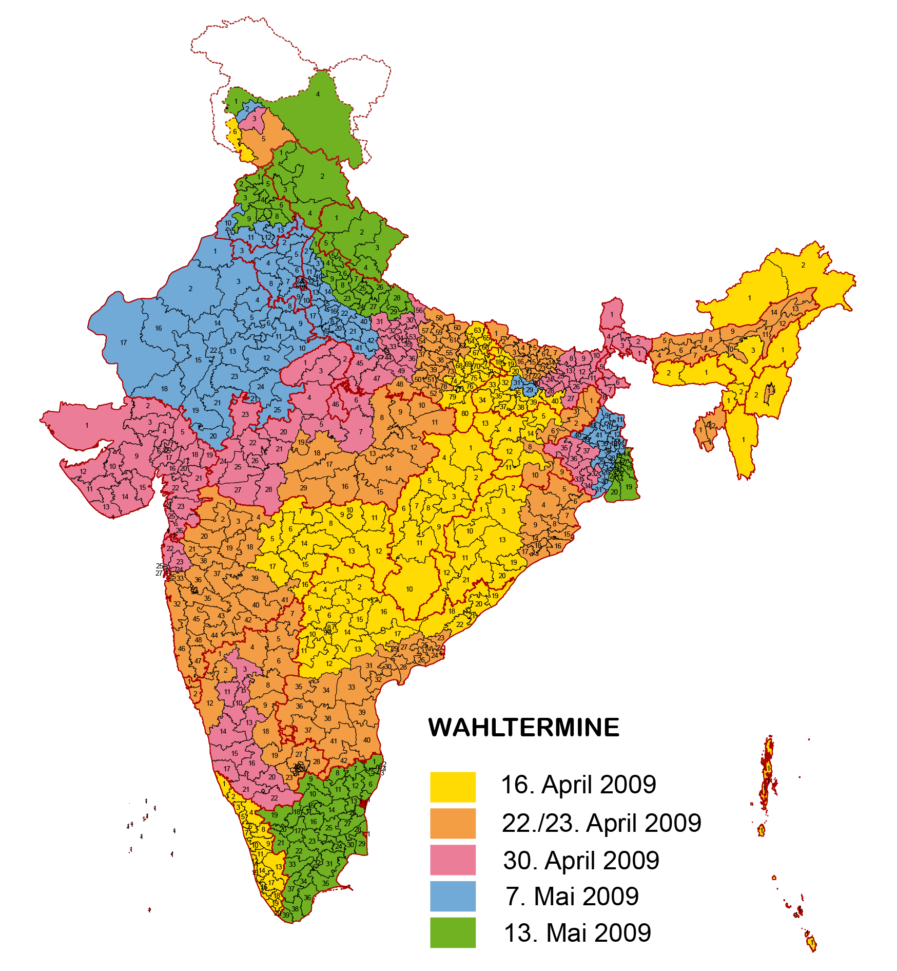 Time schedule of the Indian general election, 2009.